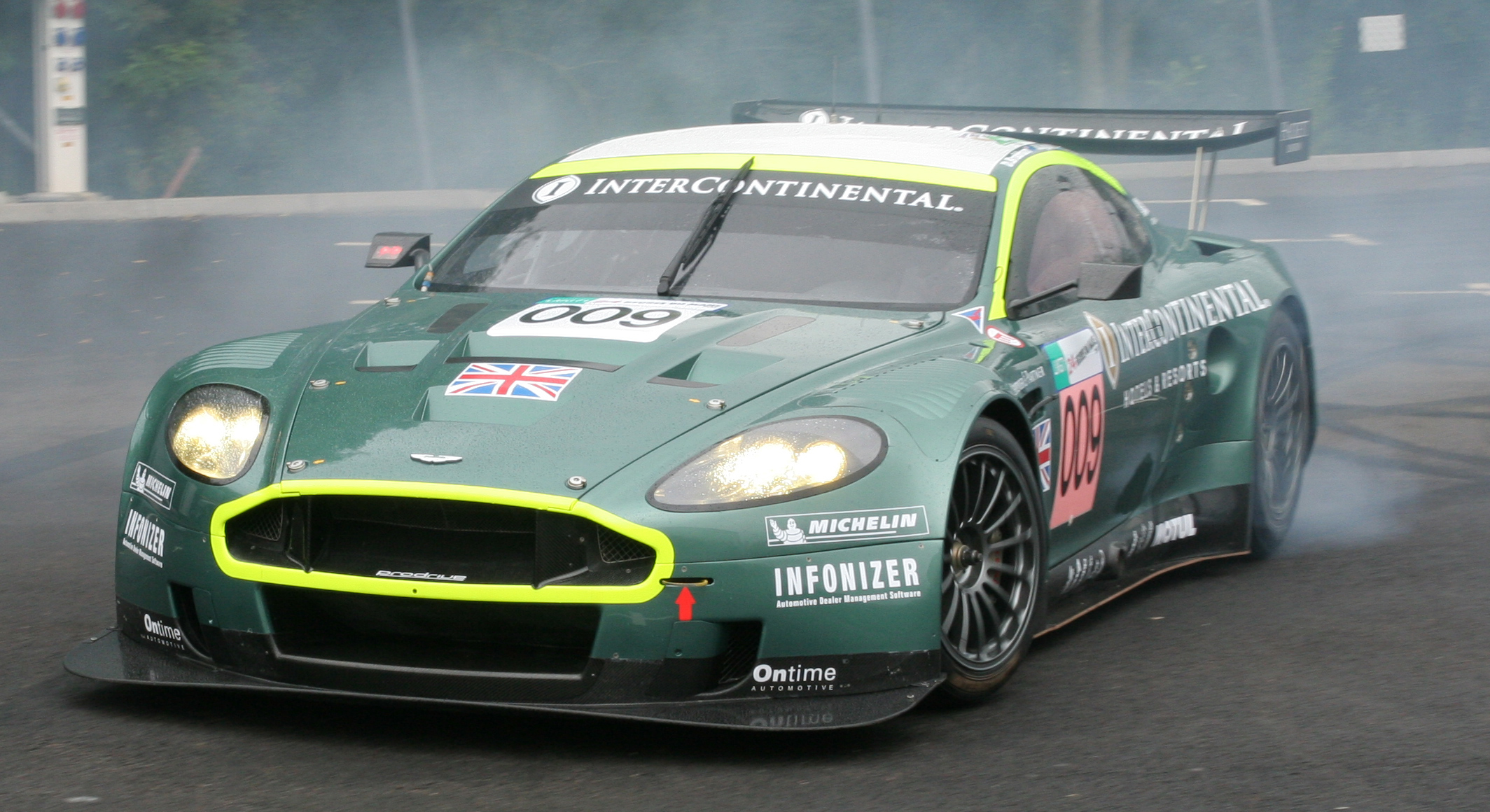 Johnny Herbert doing a doughnut with the 2007 Le Mans LMGT1 winning Aston Martin DBR9 at the Prodrive open day